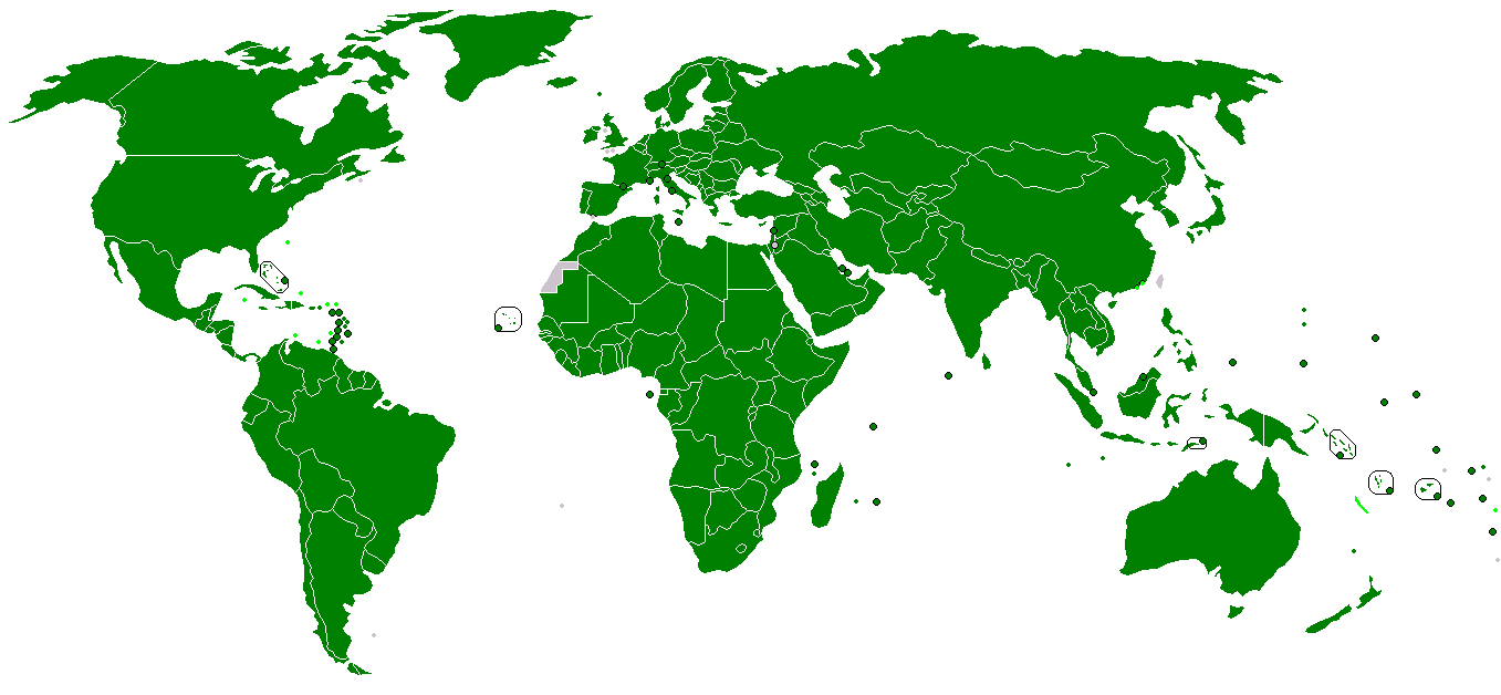 WMO members: States - Dark green; Territories - Light green